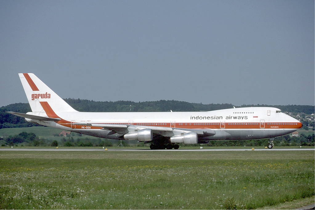 A Boeing 747 of Garuda Indonesia at Zurich Airport